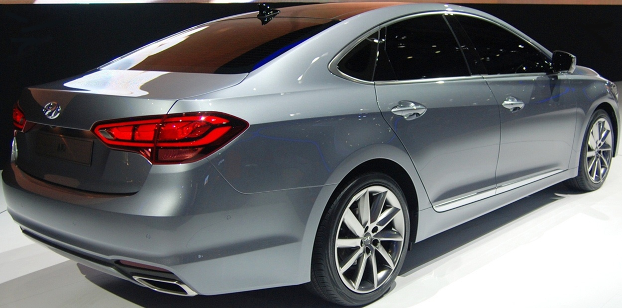 Hyundai AG